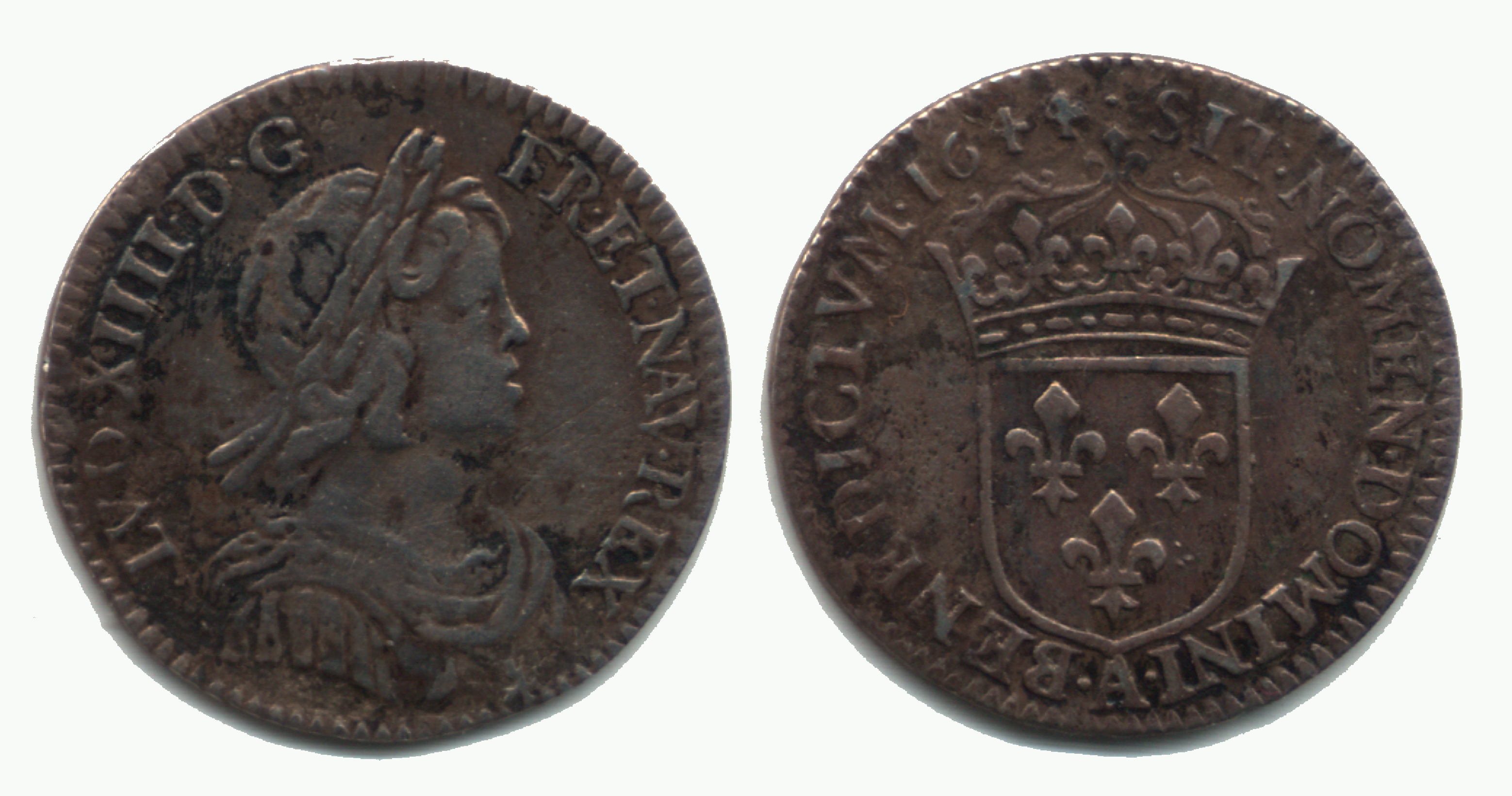 Kings of France. Louis XIV. 1643-1715. AR Douzième d'Écu (21mm, 2.12 g). Paris mint, dated 1644. LVDOVICVS• XIV• D• G• FR• ET• NAVAR• REX, bust "a la mèche courte" right SIT• NOMEN• DOMINI• BENEDICTVM• date, crowned coat-of arms of France; point above, A (Paris mint) below. Duplessy 1464; Ciani 1863